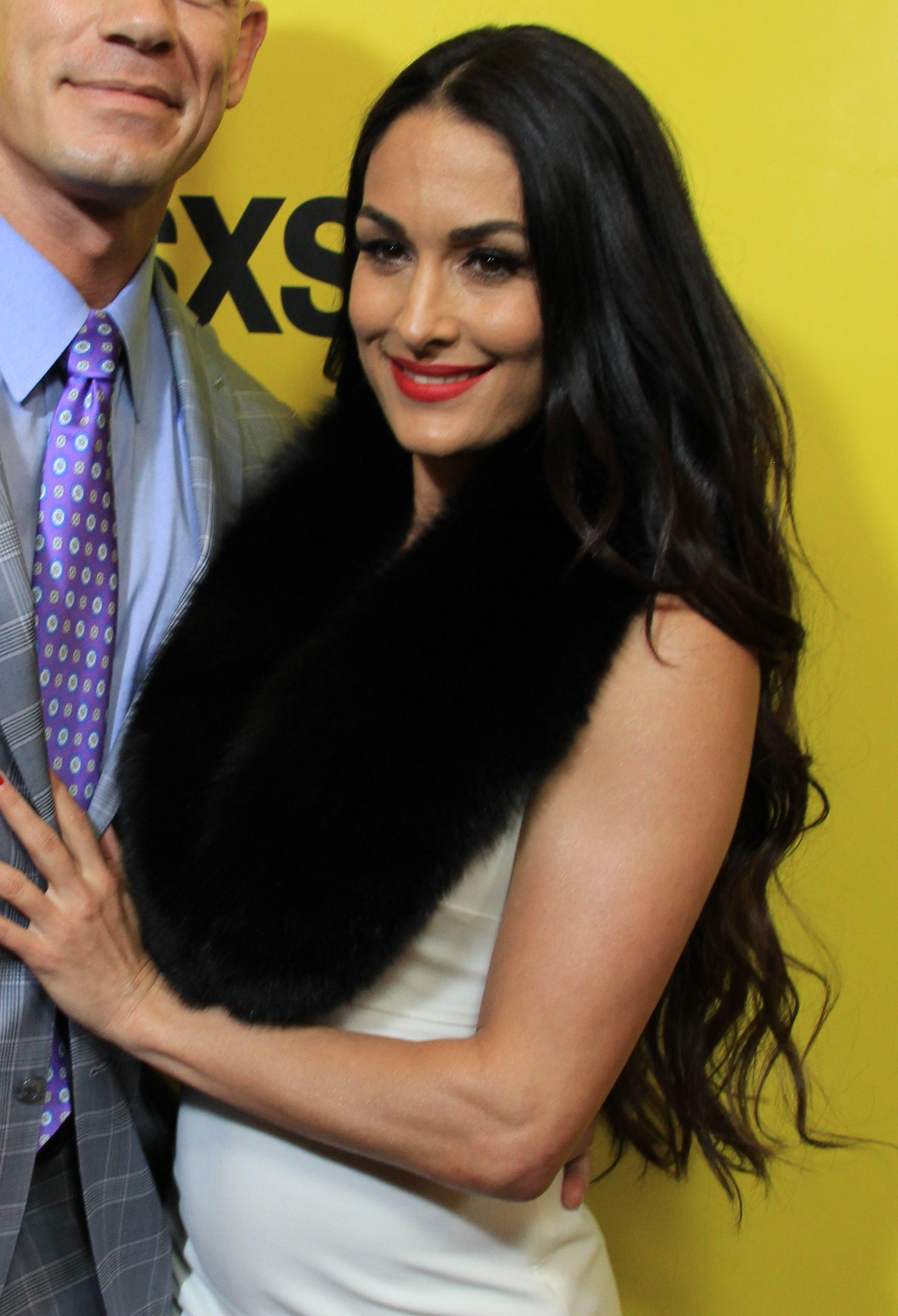 John Cena and Nikki Bella at SXSW Red Carpet premiere of BLOCKERS